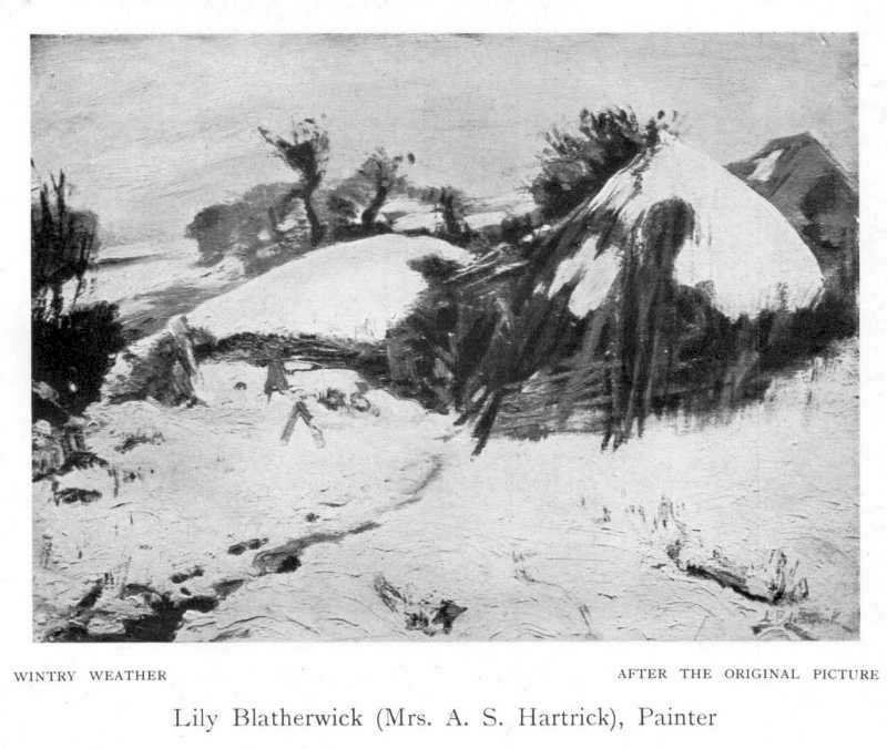 1905 print after page of Women painters of the world, from the time of Caterina Vigri, 1413-1463, to Rosa Bonheur and the present day, by Walter Shaw Sparrow, The Art and Life Library, Hodder & Stoughton, 27 Paternoster Row, London